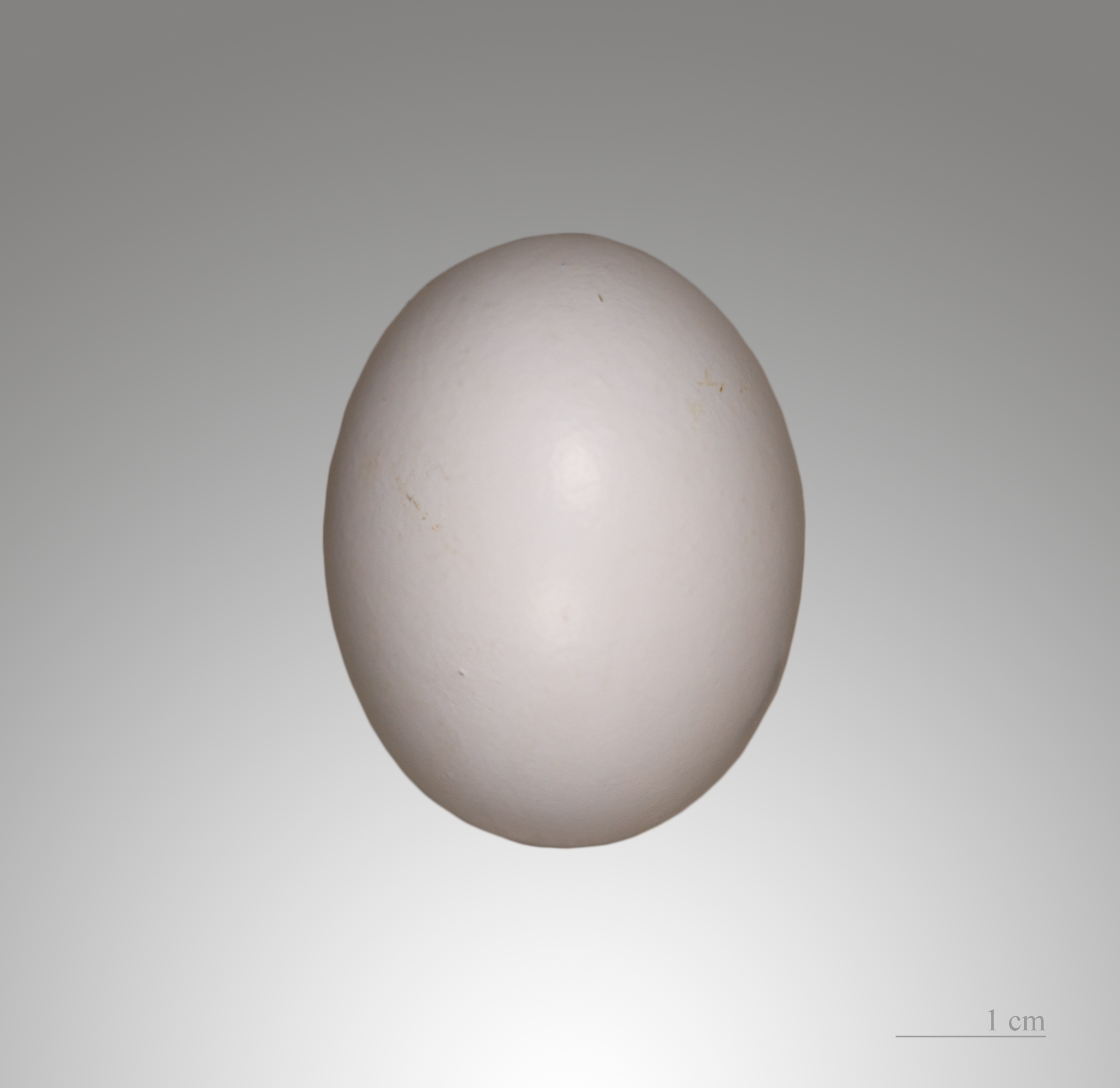 Egg of Common Wood Pigeon. Collection Jacques Perrin de Brichambaut Locality : Lumigny-Nesles-Ormeaux, Seine-et-Marne, France